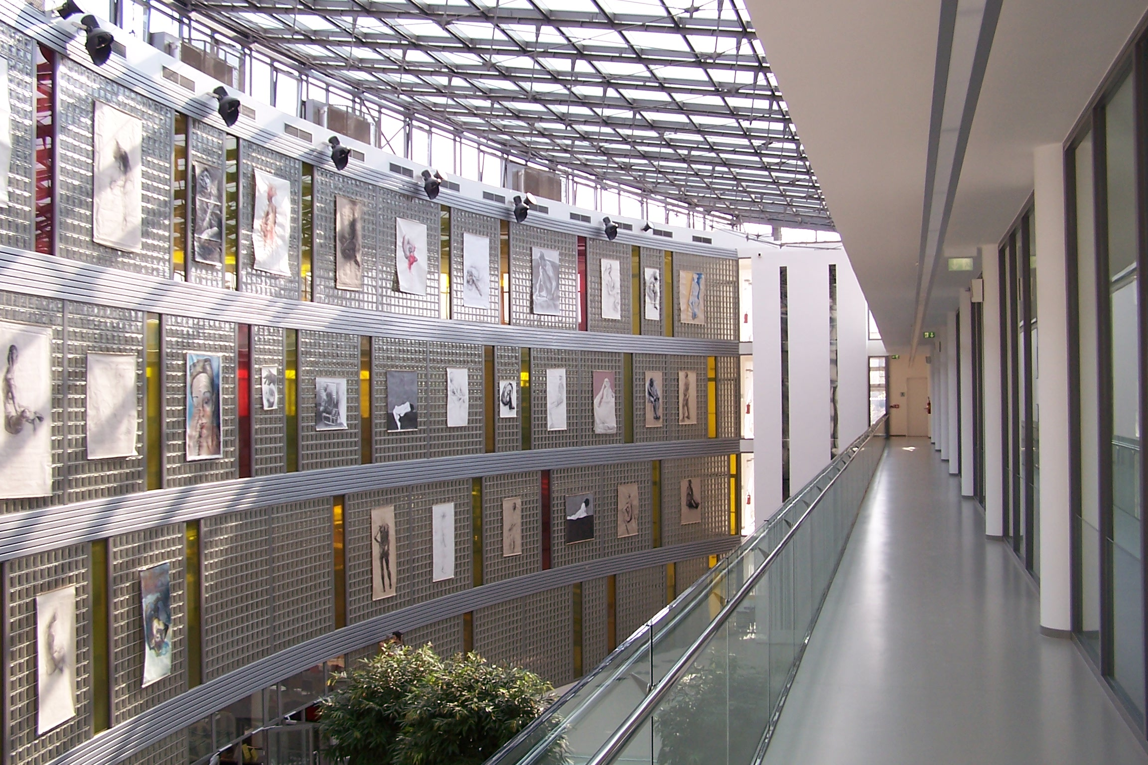 Zlín - University center by Eva Jiřičná - interior